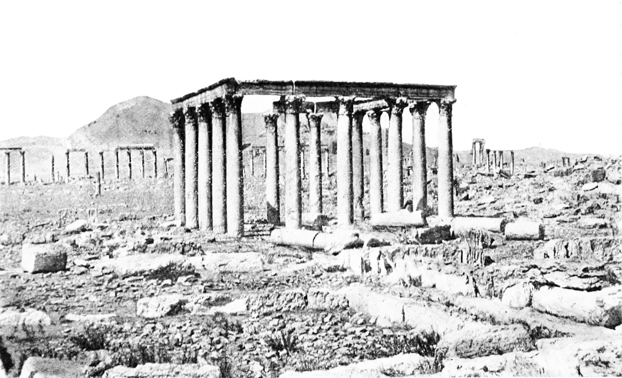 Ruins of ancient Palmyra